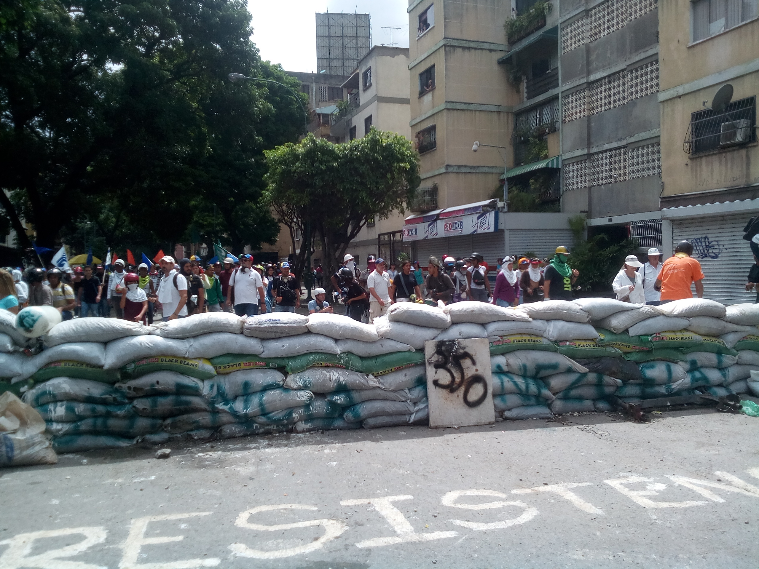 Barricada en Bello Monte, Caracas.